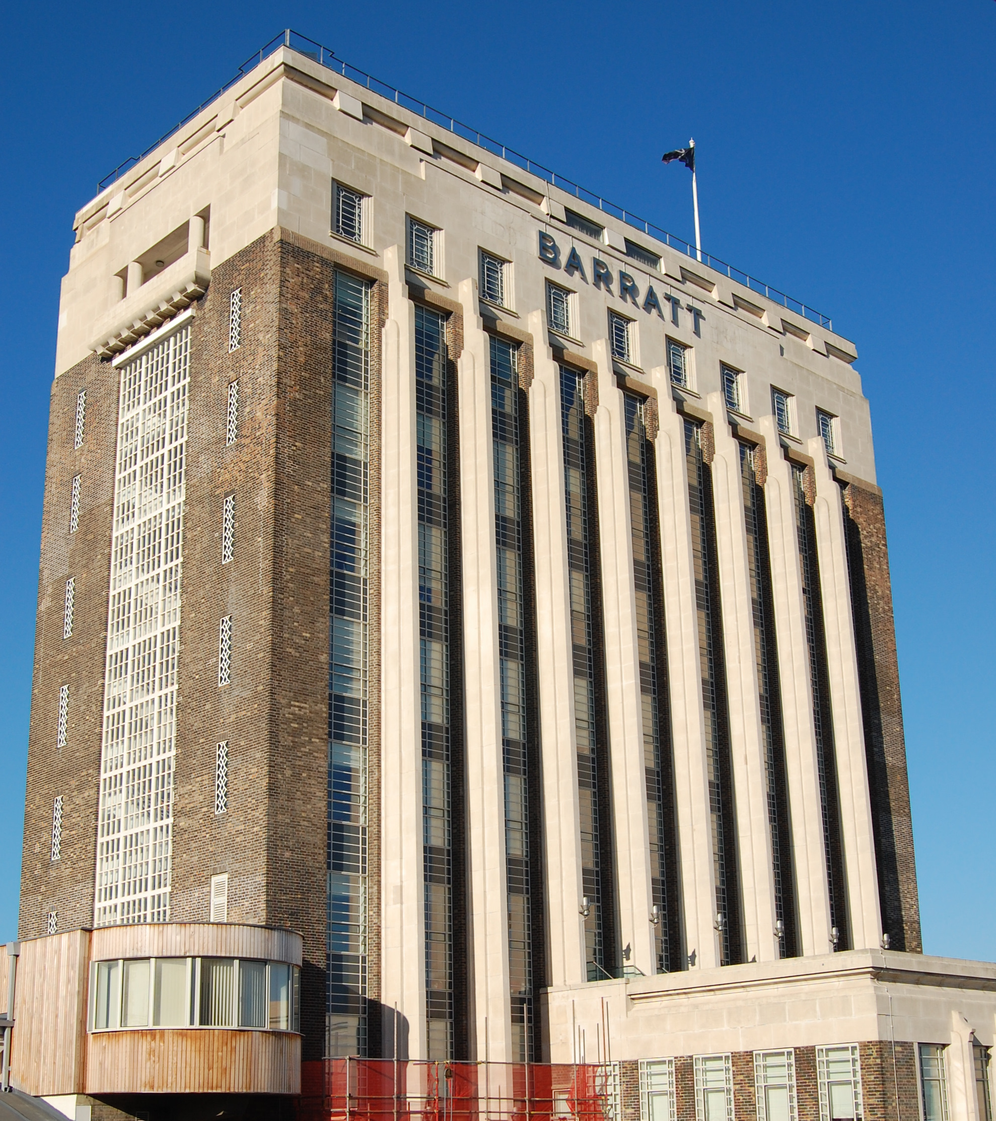 View of Wallis House from new housing redevelopment designed by Assael Architecture